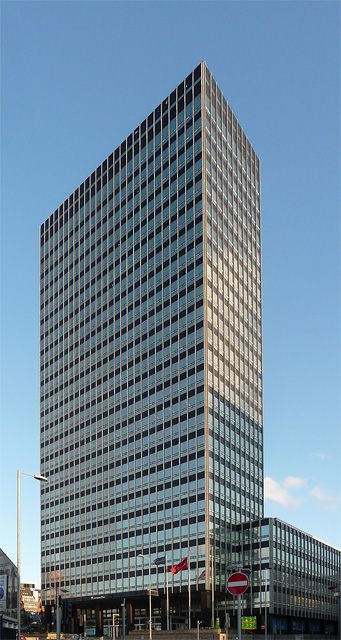 Co-operative Insurance Society Tower, Miller Street, Manchester. The best of Manchester's 1960s towers, and perhaps the best anywhere in the country. A thoughtful and deep-pocketed client, thoughtful architects, and top-quality materials serendipitously came together to prove that 1960s architecture can age gracefully while continuing to meet the needs of its users. Continuous occupation by those original clients helps too. The sleek twenty-five storey tower is glass, aluminium and black enamelled steel, materials chosen to resist the degrading effect of Manchester's dirty atmosphere. It was built 1959-62, the architects G.S. Hay of the CWS and Gordon Tait of Sir John Burnet, Tait & Partners, who drew inspiration from skyscrapers across the Pond. Grade II listed. Pevsner notes that "when the building was being planned the CIS General Manager set out three aims: to add to the prestige of the Society and the Co-operative Movement, to improve the appearance of the city and to provide first-class accommodation for staff. The aims were fulfilled, and continue to be forty years on."